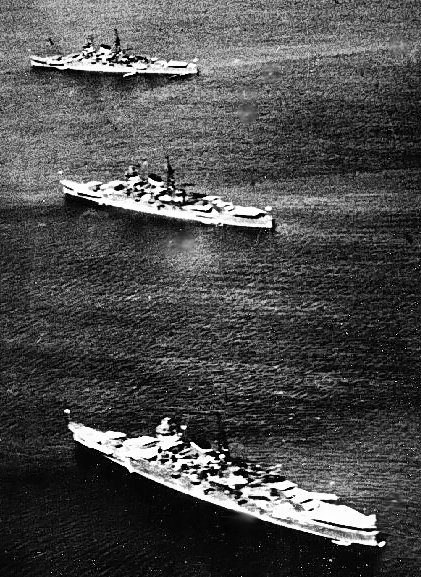 Japanese Cruisers of the Seventh Squadron in Ise Bay, east-central Honshu, during the Summer of 1938. Ships are identified on the original print as (from front to back) Mogami, Mikuma and Kumano. However, at that time Sentai 7 consisted of Kumano (one funnel band, as on ship in foreground), Mikuma (2 funnel bands) and Suzuya (3 funnel bands). Accordingly, this photo may show those three ships, in the order listed.